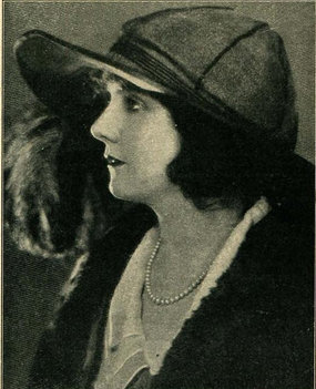 Norma Talmadge, from a 1923 publication. Photo by Edwin Bower Hesser.